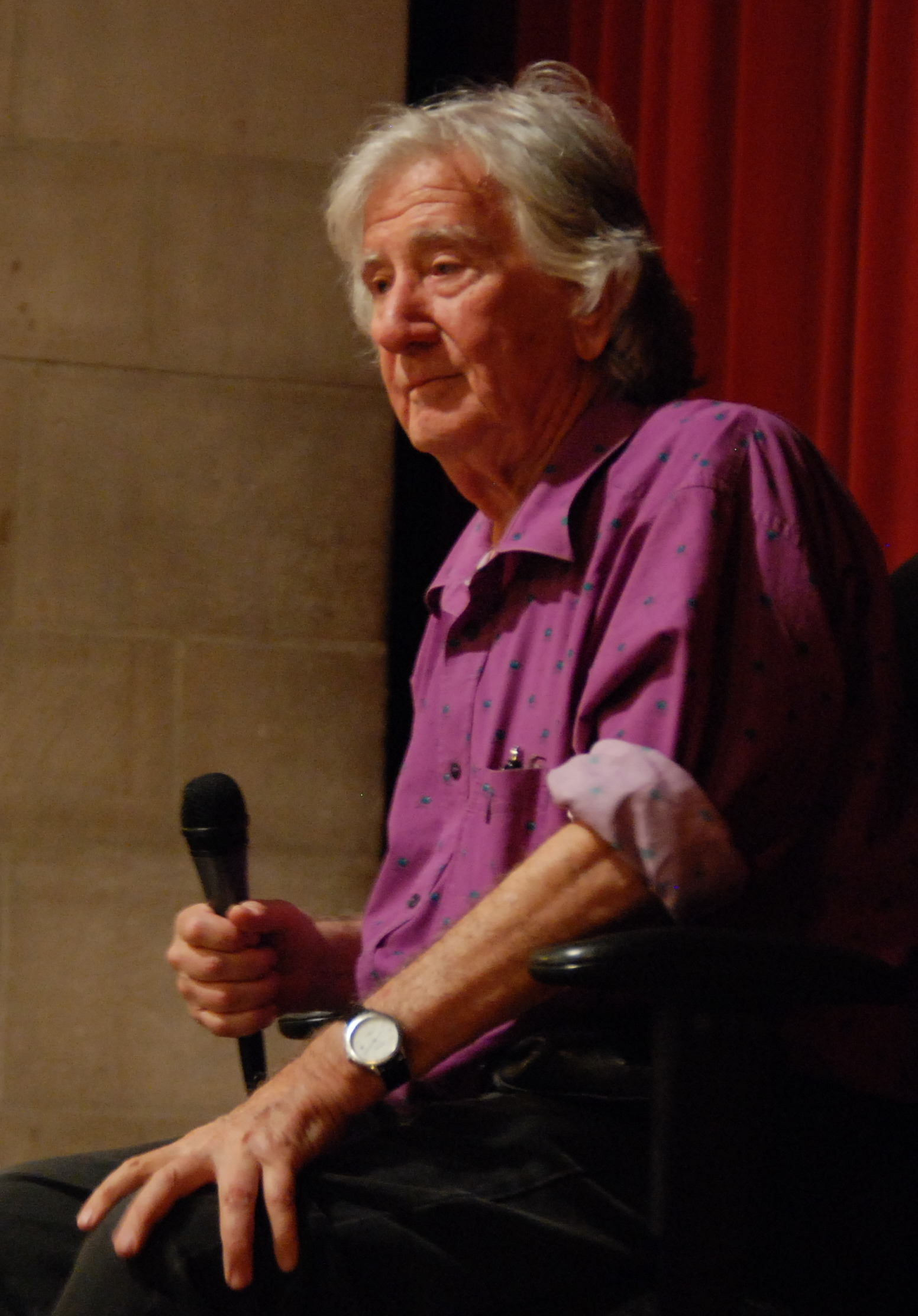 Brazilian theater director and writer Augusto Boal presenting his Theater of the Oppressed at Riverside Church in New York City.